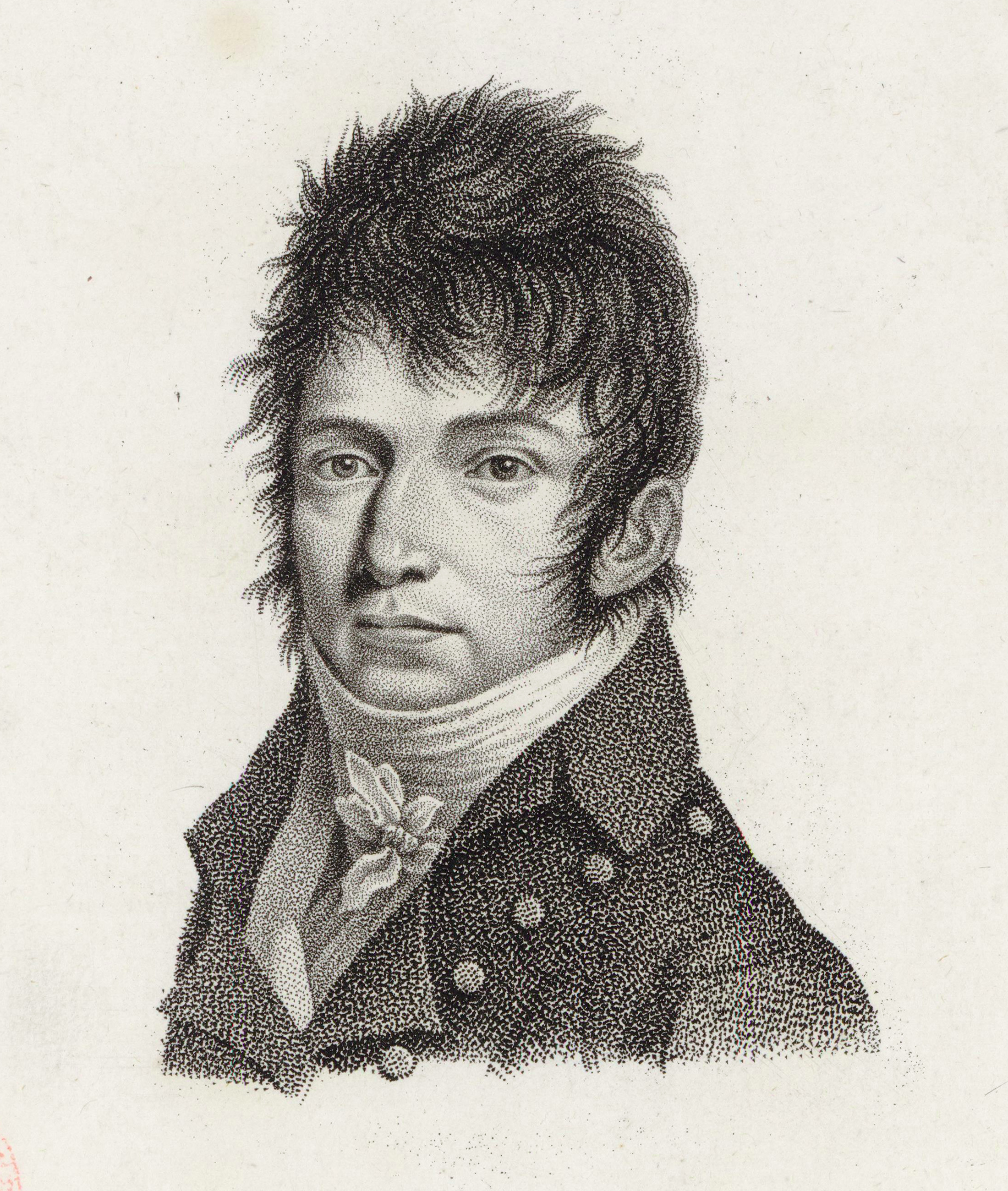 Depicted person: Pierre Rode